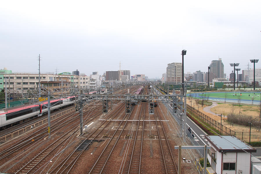 JR East/Freight Shin-Koiwa-Sou station.